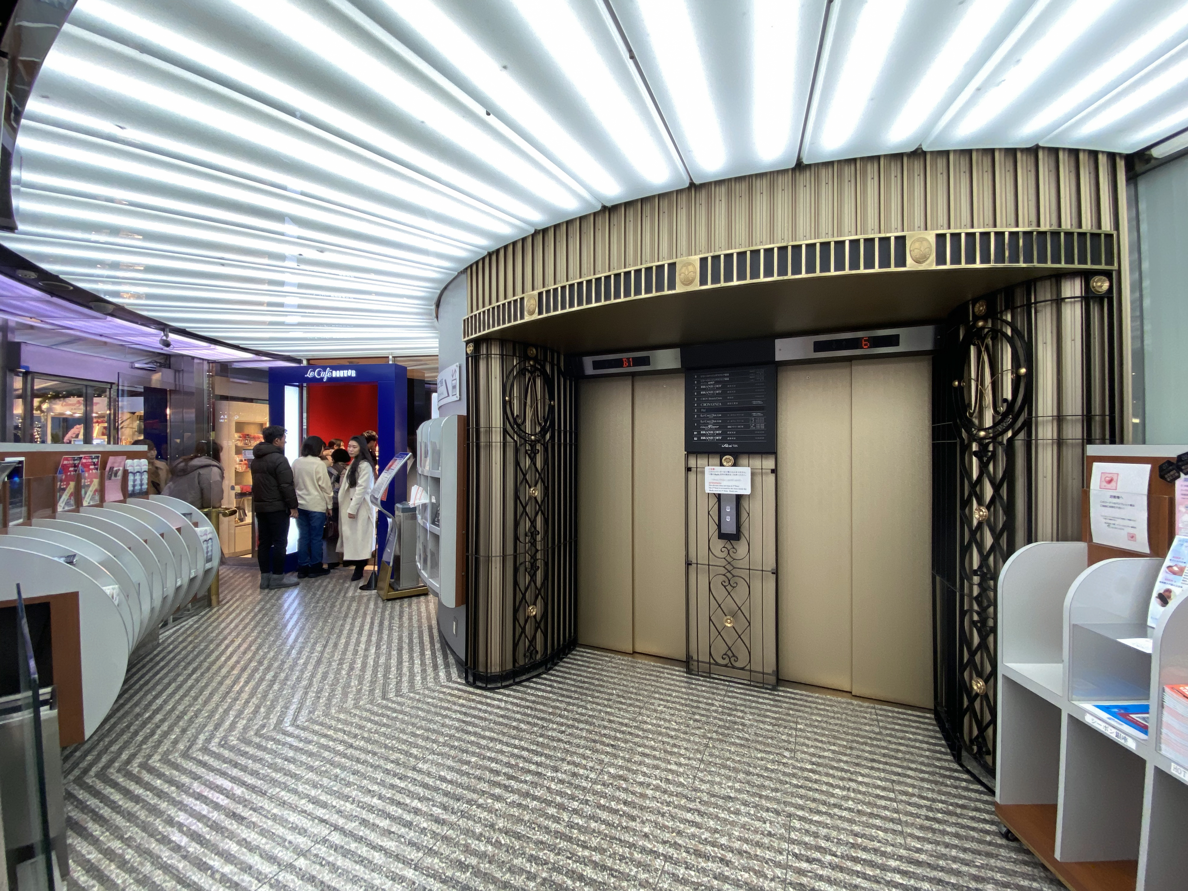 San-ai Dream Center Lobby